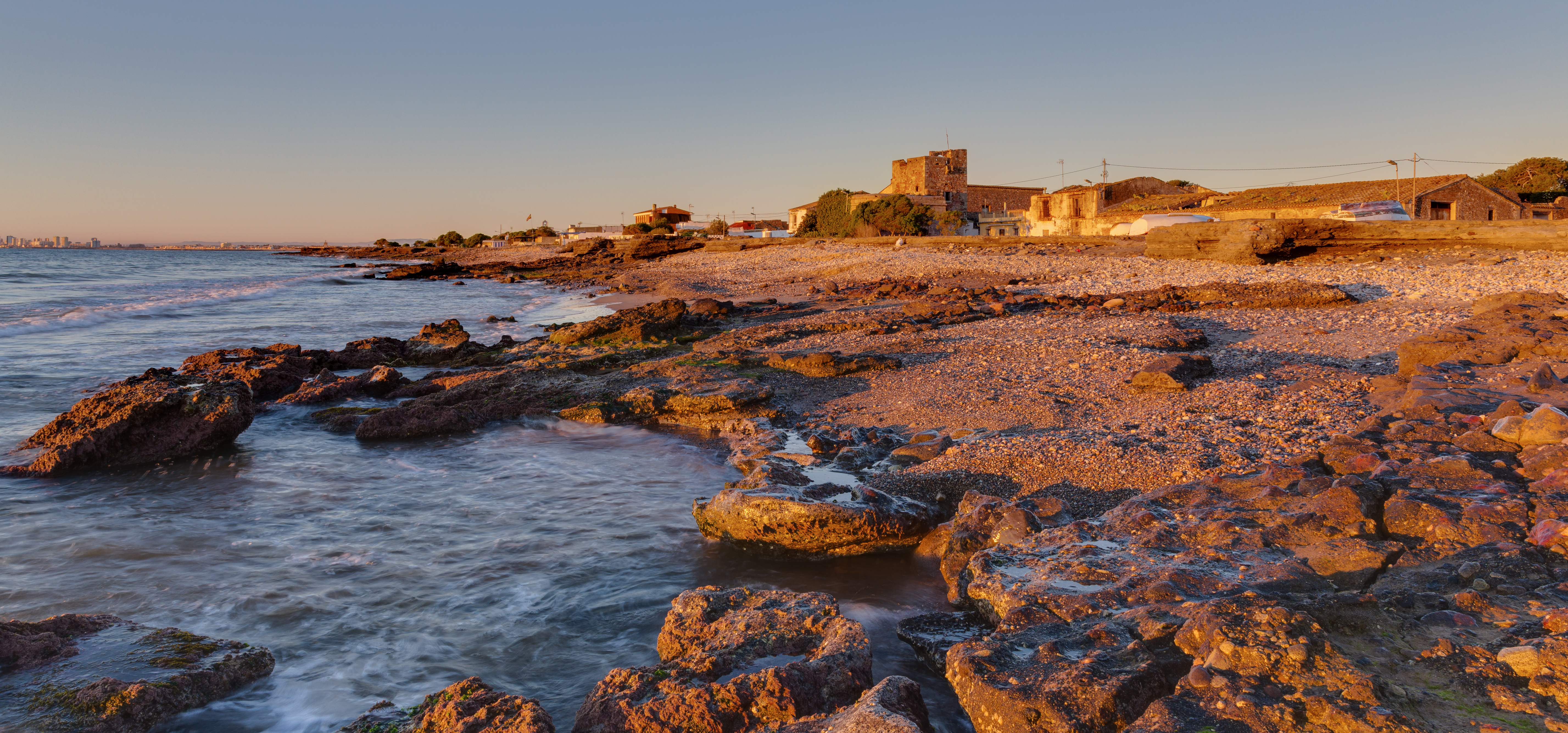 Grau Vell, Port of Sagunto, Valencia, Spain